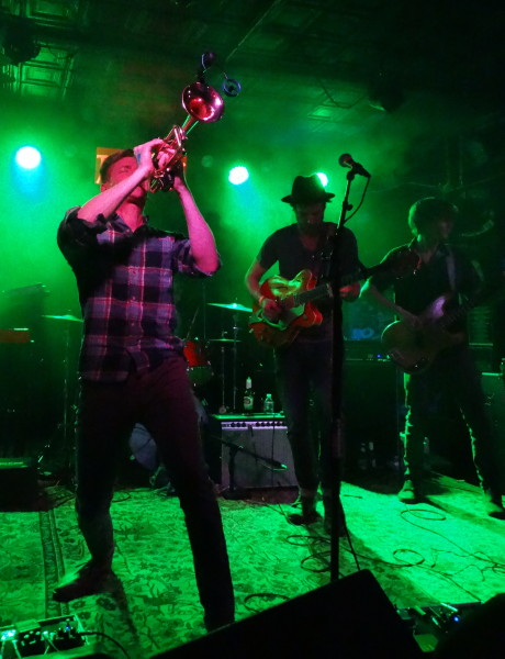 Trumpet, Current Swell playing at the Saint in Asbury Park, NJ on 04072018. Photo be LHCollins